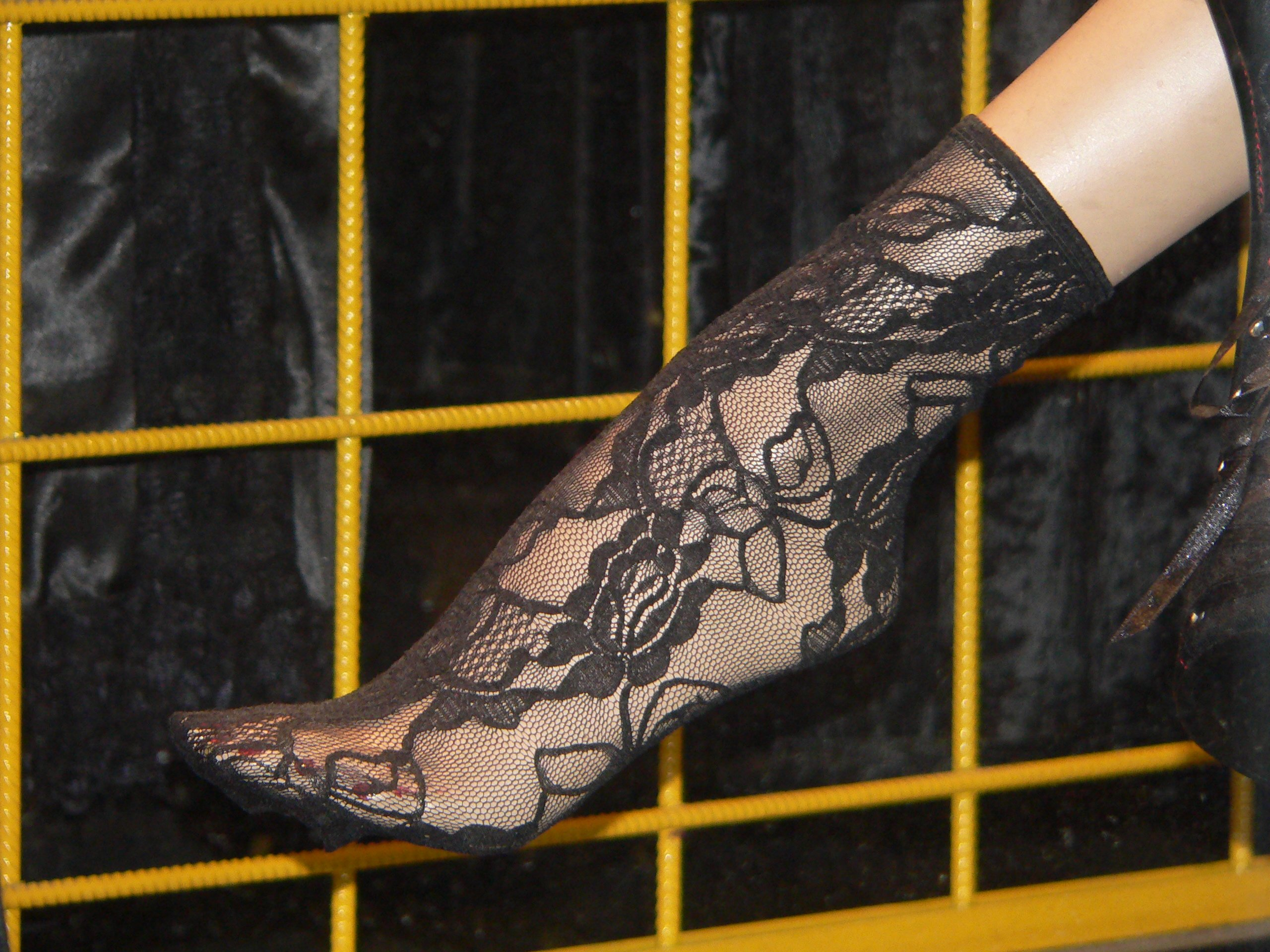 Elements of Gothic fashion None of these photographs would have been possible without the kind autorisation of the store Maniak at the Flon in Lausanne, to which we express our thanks.